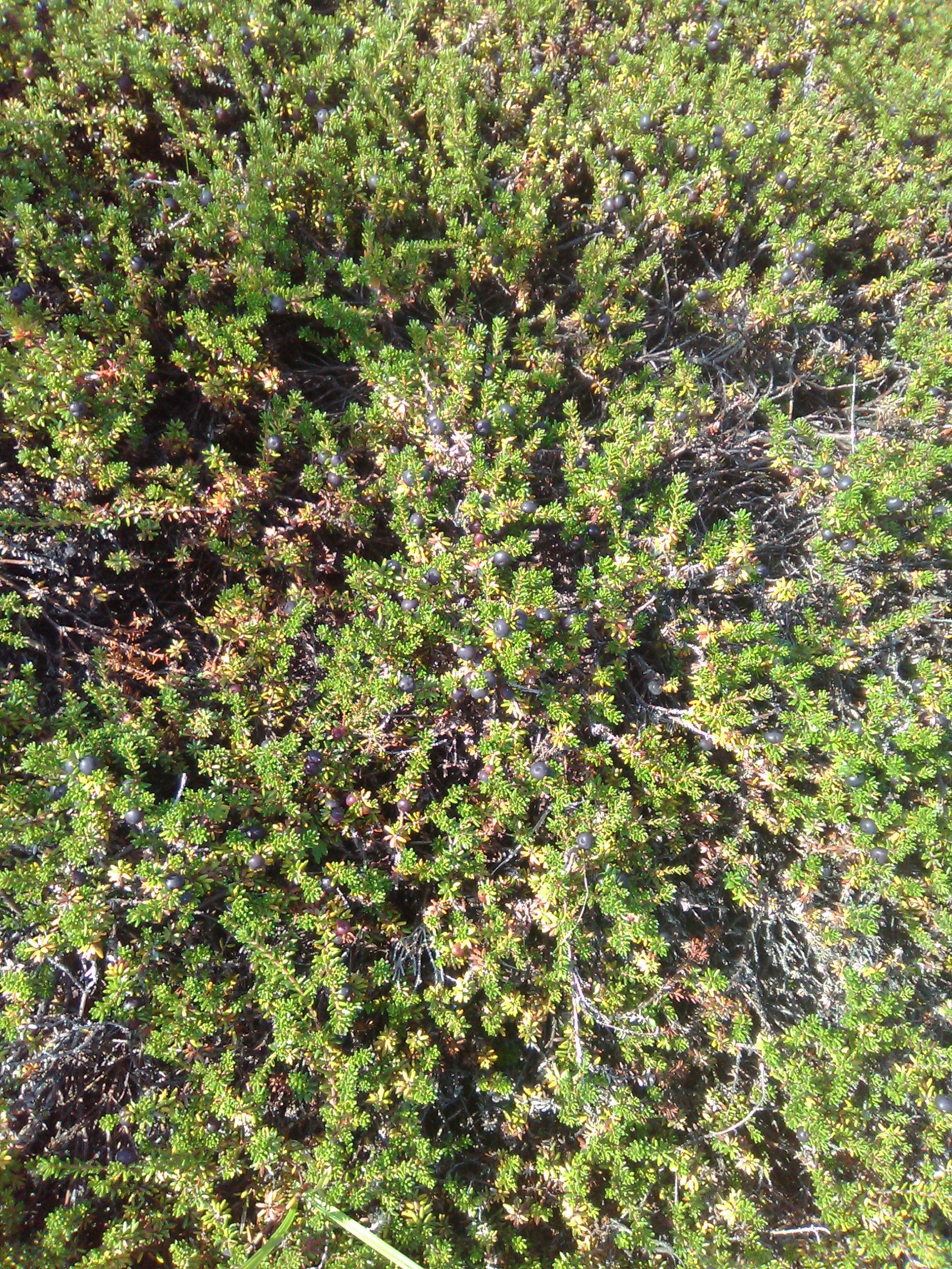 Alaskan crowberry. A low lying plant found in alpine-tundra areas